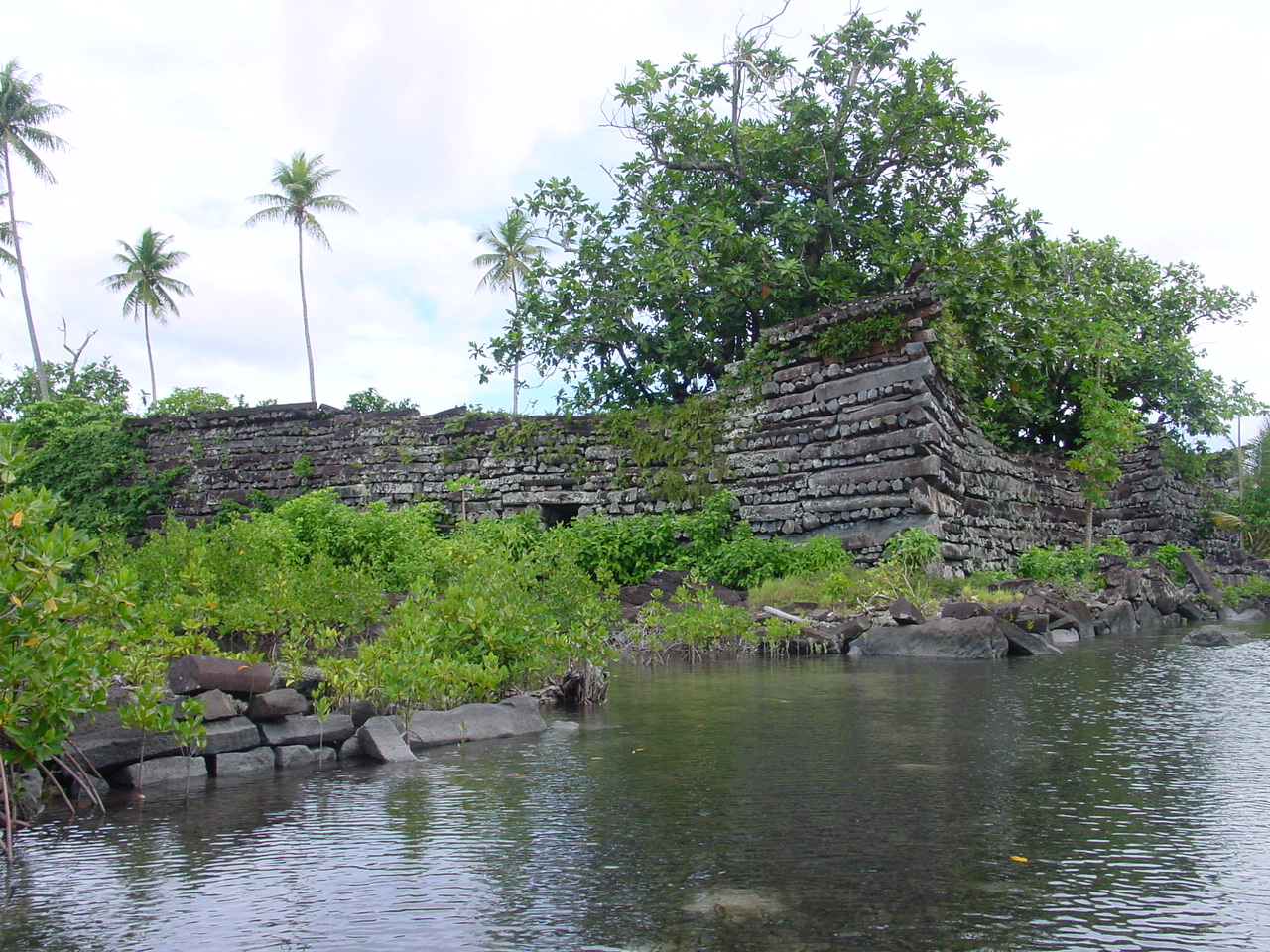 The ruins of Nan Madol in Pohnpei